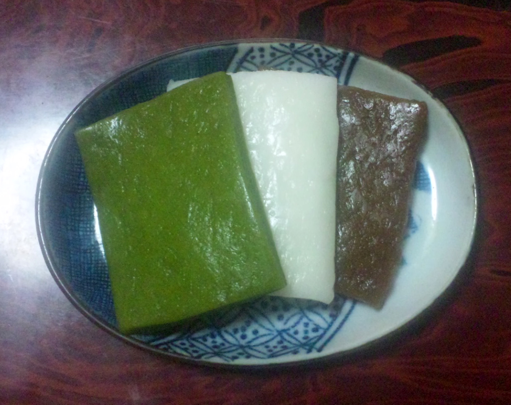 Namasembei, one of the local cake in Aichi Prefecture, Japan(With Macha(green-tea taste))